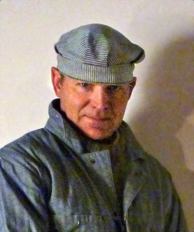 Sculptor John Van Alstine taken in his studio 2012 by me. Artist has granted permission to use freely